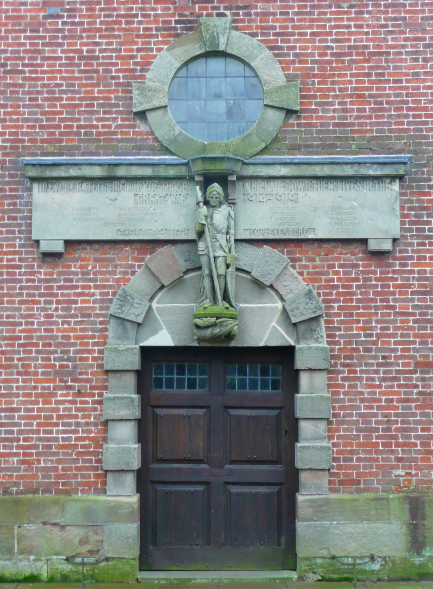 West entrance of St Peter's parish church, Marchington, Staffordshire, with the First World War memorial above the door. Figure of St. George and dragon at his feet. The memorial reads In ever grateful memory of those who laid down their lives in the great war 1914-1919 T. Bennett E. Buckley W. Champion W. Cotterill G. Charlesworth A. Gilbert J. Gilbert R. Gilbert H. Hamilton T. Harper S. Harrison H. Hollins T. Thomas W. Walker F. Williams Their name liveth for evermore